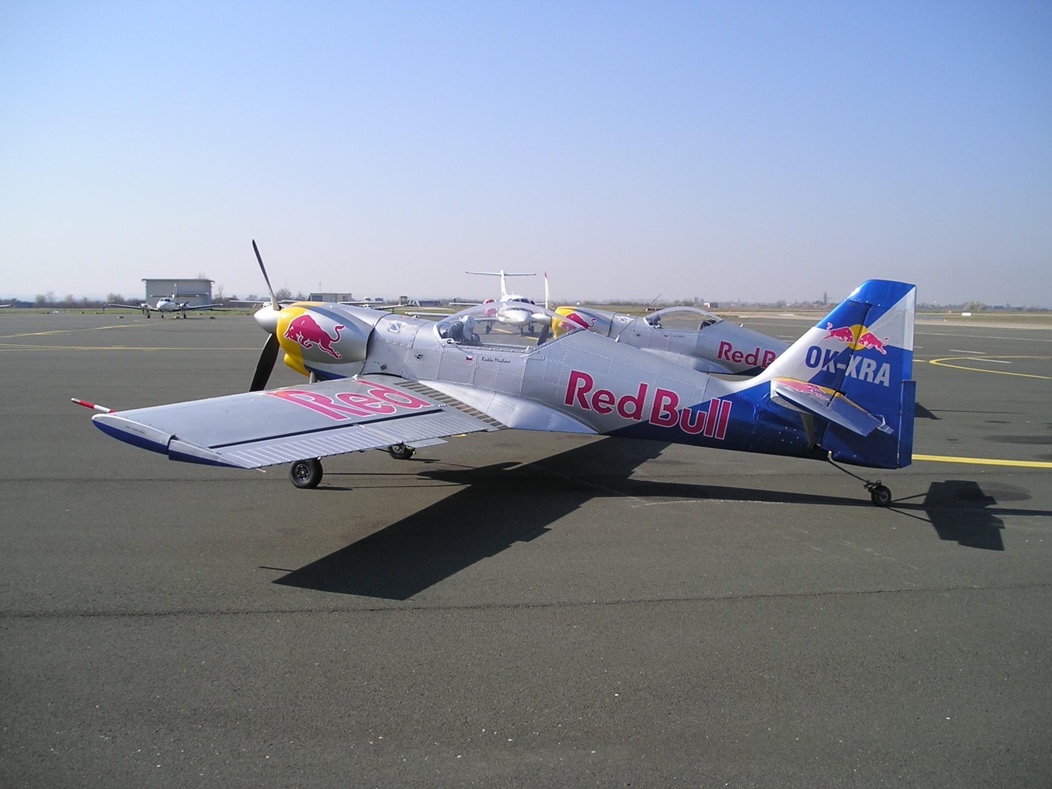 Flying Bulls Aerobatics Team Zlín Z-50LX OK-XRA